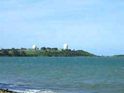 Picture of the PR Air National Guard base and the radar domes at Punta Salinas, Puerto Rico